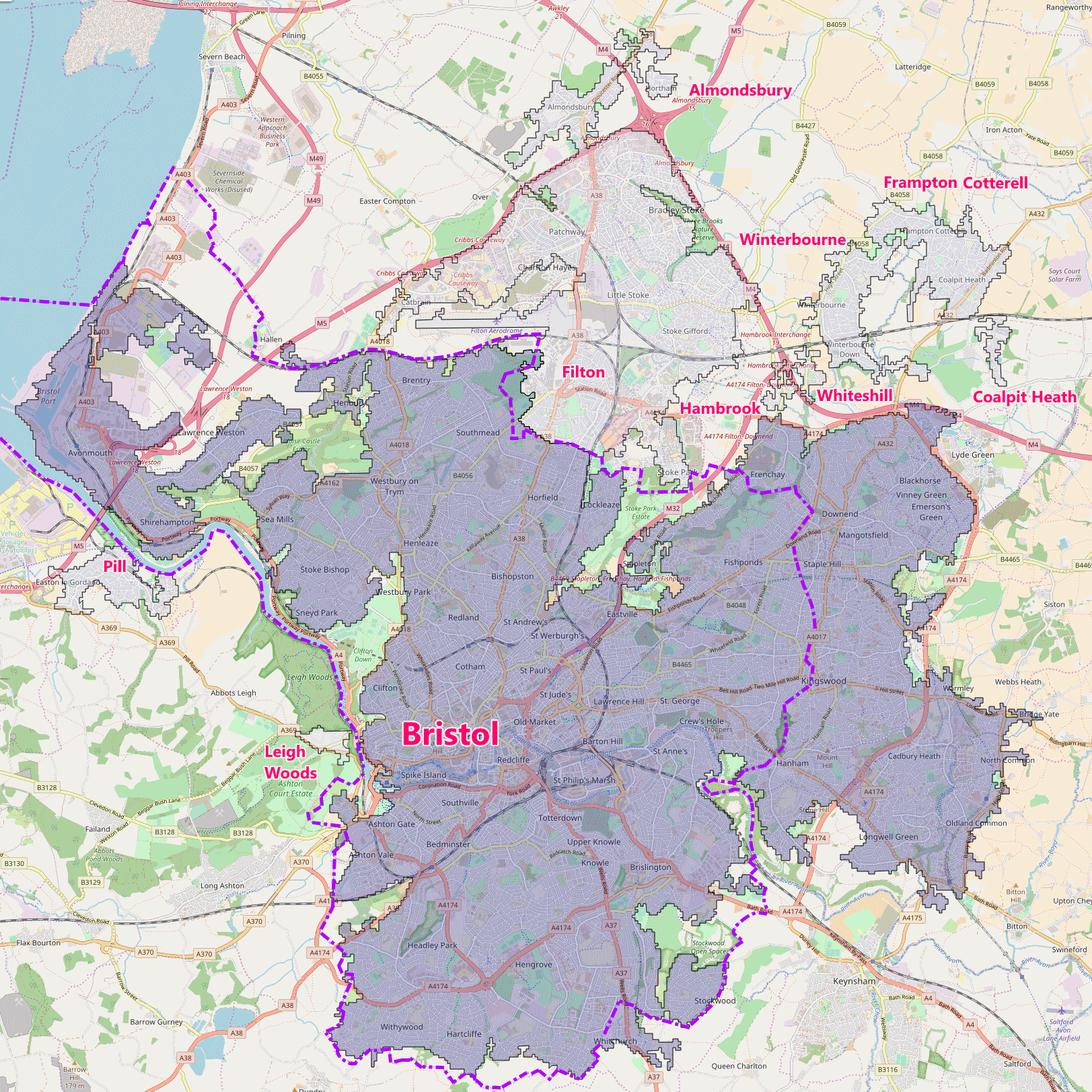 Bristol built-up area (BUA) in 2011, showing subdivisions, and city (Unitary Authority) border